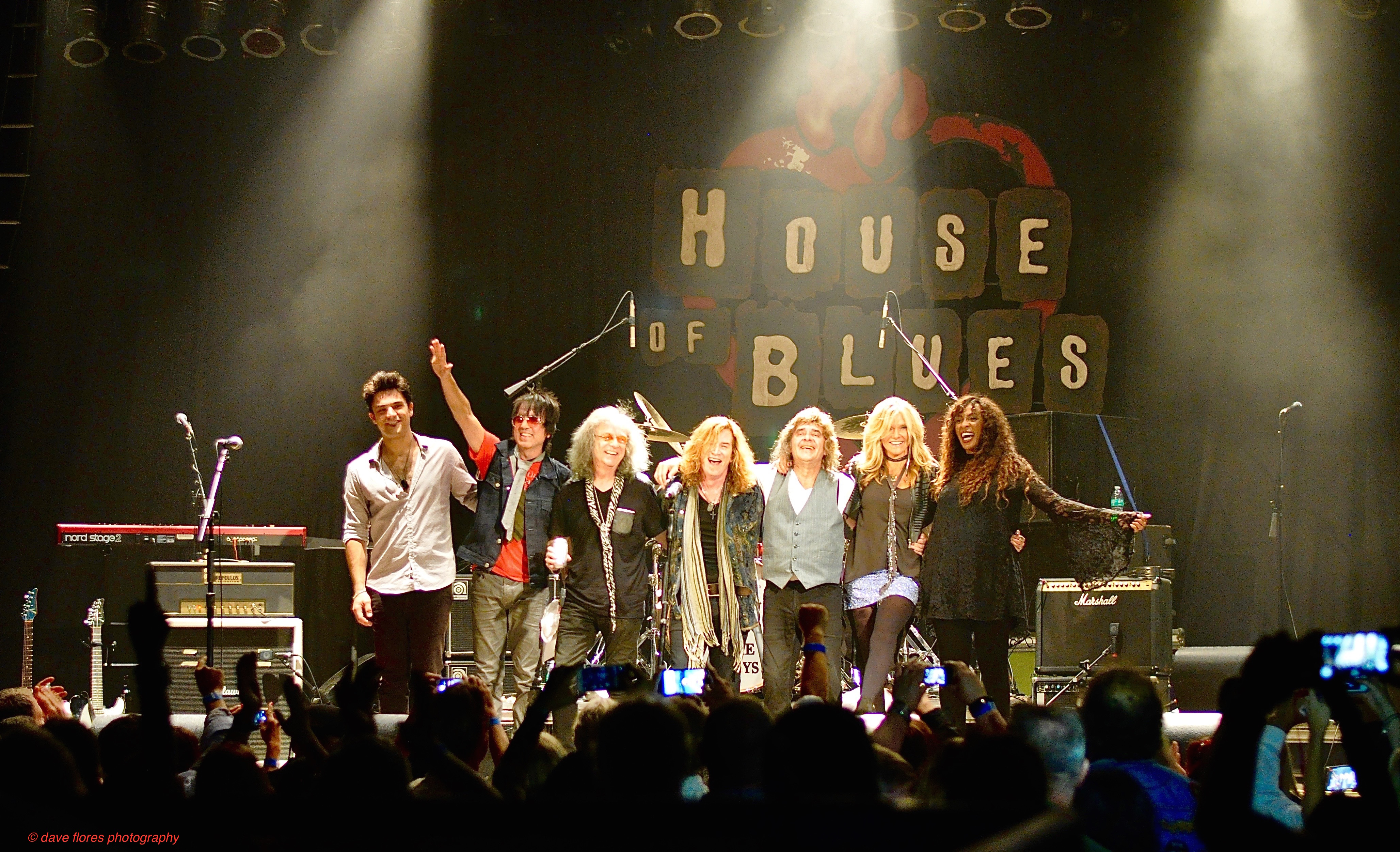 shot after HoB gig